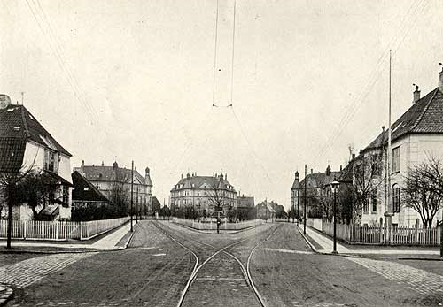 The tram loop where Kristian Zahrtmanns Plads has later been consturcted in Frederiksberg, Copenhagen, Denmark